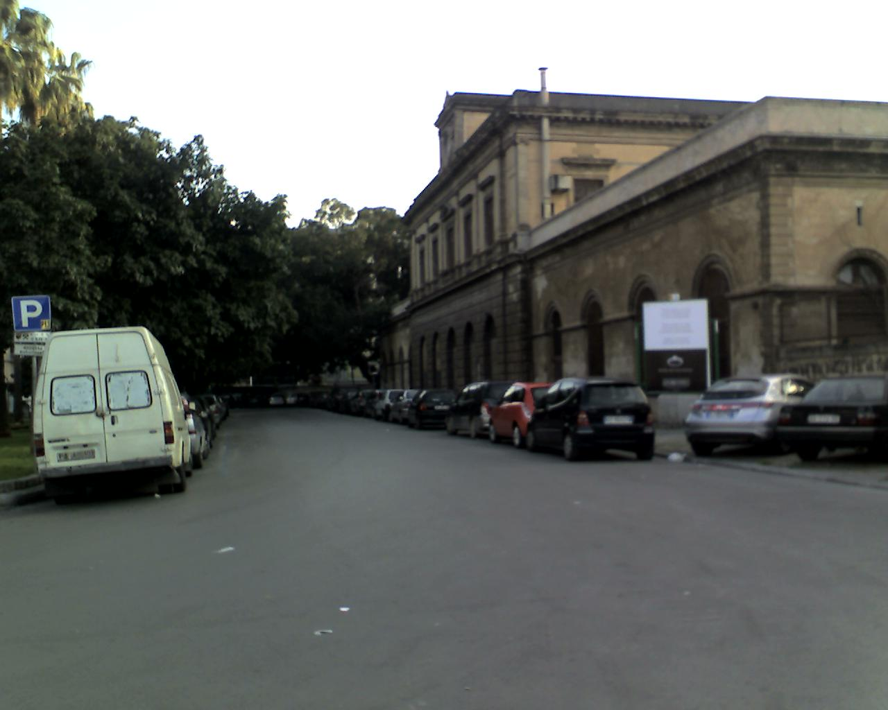 Railway station of Palermo Lolli